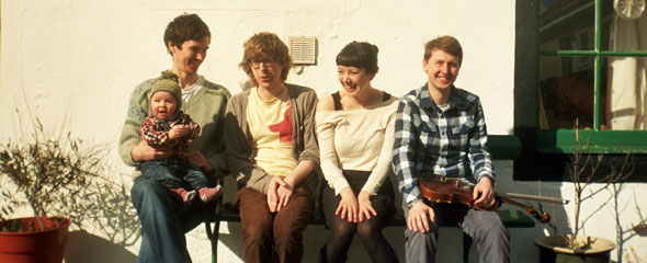 Edinburgh post-folk band eagleowl taken in Anstruther at Homegame 2010.